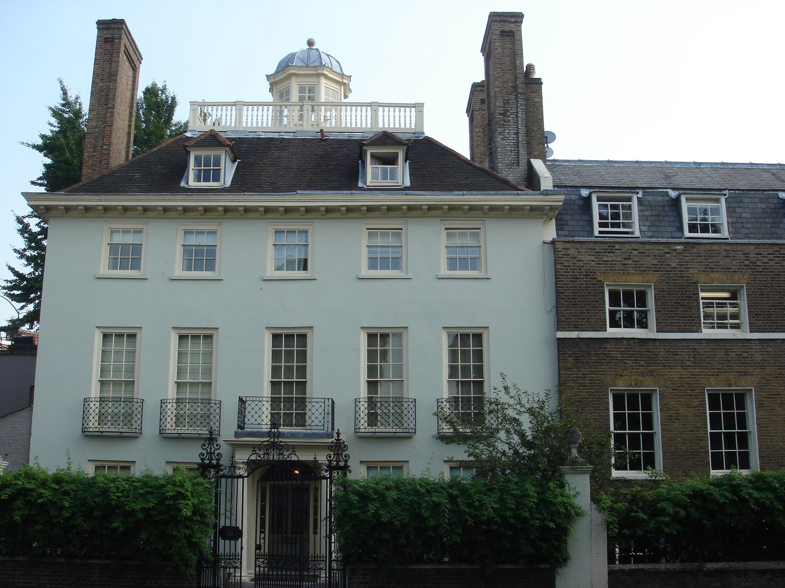 Devonshire House, 44 Vicarage Crescent, London SW11